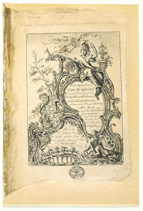 Etching, 1758, Thomas Johnson V&A Museum no. E.3780-1903 Techniques - Etching, ink on paper Artist/designer - Thomas Johnson, (designers) Butler Clowes(probably etchers) Place - London, England Dimensions - Height 37 cm (paper) Width 25 cm (paper) Object Type - This print is an etching. An etching is made by using acid to bite the lines into a metal printing plate which are to hold the ink. Once the lines on the plate have been filled with ink, the plate is then pressed onto successive sheets of paper, each time transferring the image. Trading - Publishers of sets of prints in the 18th century often financed them by taking in subscriptions in advance and then issuing the set in parts. Thomas Johnson (born 1714; died after 1778) began publishing the set of prints which this dedication eventually accompanied in 1756. Subscribers paid 1s 6d per part, plus a cover charge of another 1s 6d. There were 13 parts, with each part made up of four pages. The total cost to subscribers was therefore 21s (i.e., £1 1s, or 1 guinea). Alternatively, anyone who had not subscribed could pay the higher price of 25s when all the parts came out in book form in 1758. In 1761 the set was re-issued with one additional plate, and this was the first time it was given the title One Hundred and Fifty New Designs. Design & Designing - The subjects of the plates which followed this dedication included mirror and picture frames, candlestands and candlesticks, clockcases, brackets, ewers and vases, in a variety of styles including Chinese, Gothick and Rural. At least one design for a ewer owed its origins to a French metalwork design previously published in Paris in 1748.